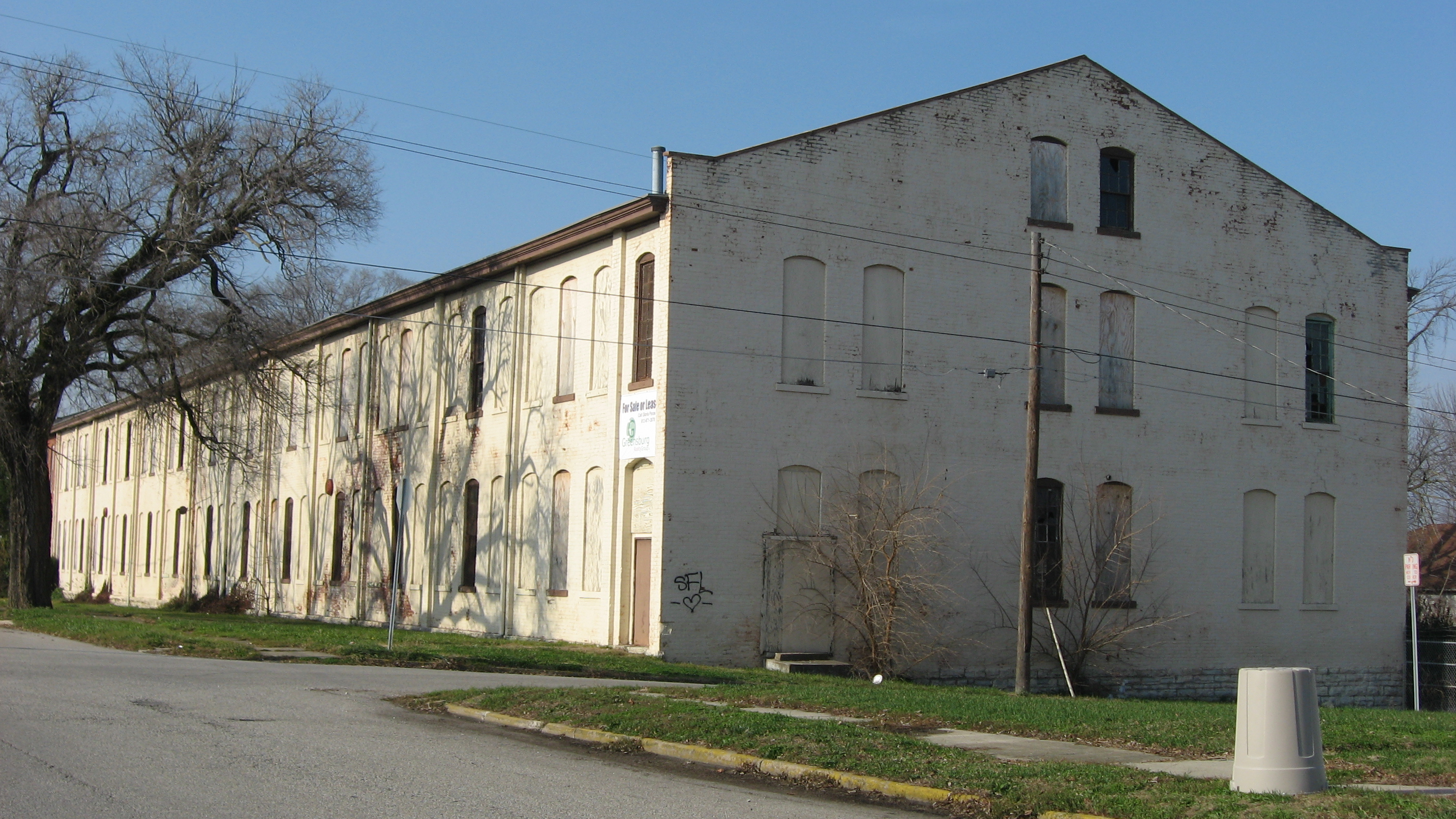 Front and eastern side of the former Bromwell Wire Works, located on the northwestern corner of the junction of First and Ireland Streets in Greensburg, Indiana, United States. Built in 1903, it is listed on the National Register of Historic Places.